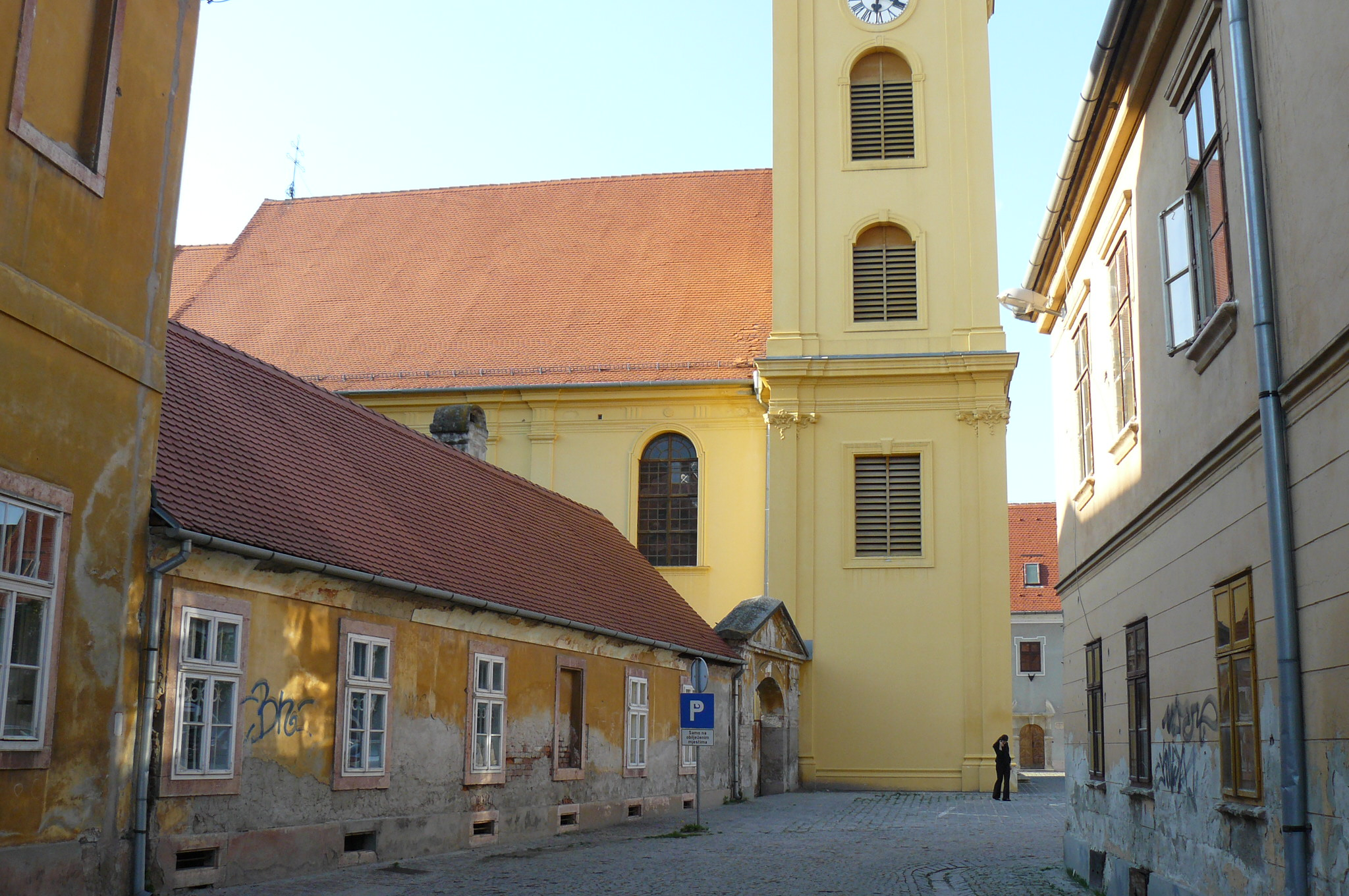 Osijek Old Town. St.Michael Church.